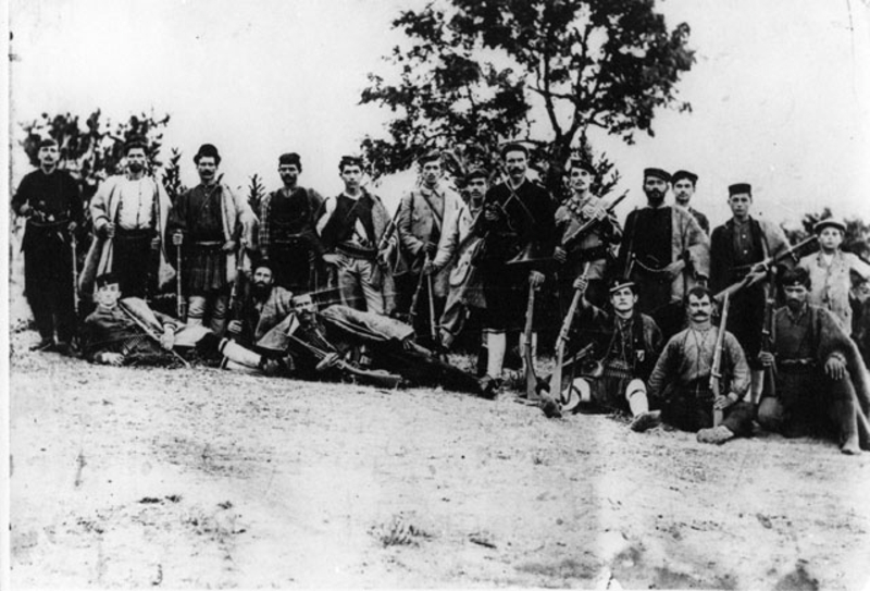 Iraklis Patikas